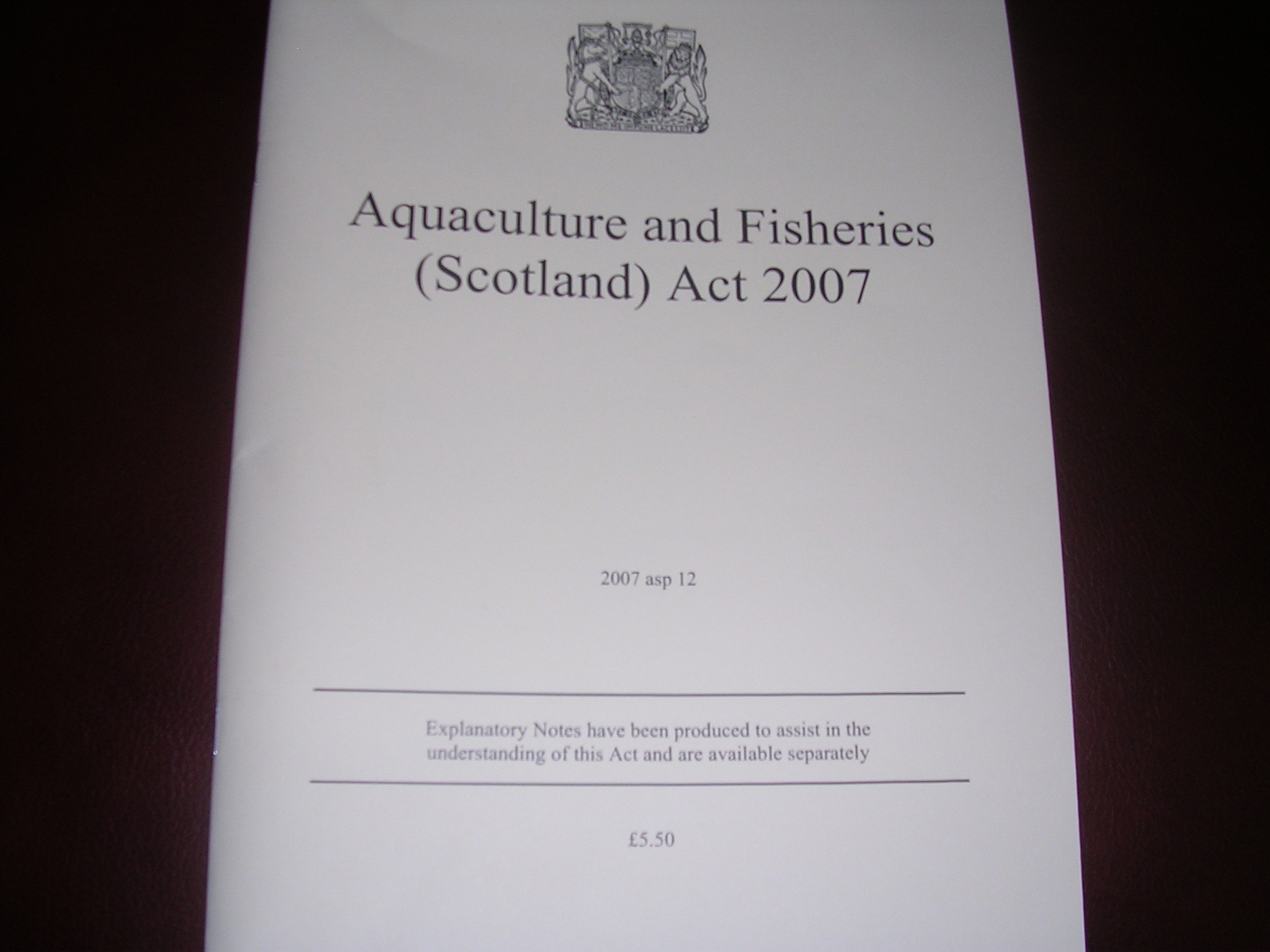 After a bill has passed through all legislative stages, it becomes an Act of the Scottish Parliament.